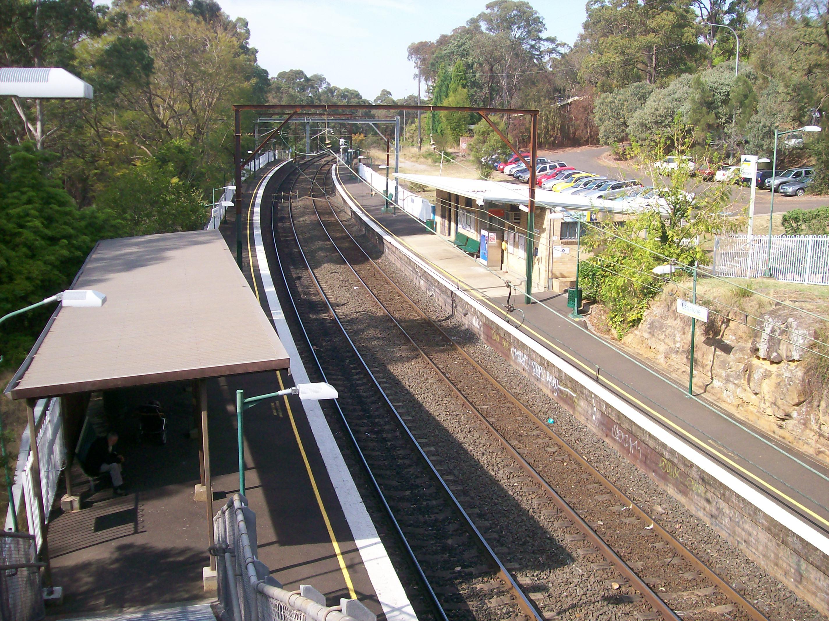 Lapstone railway station